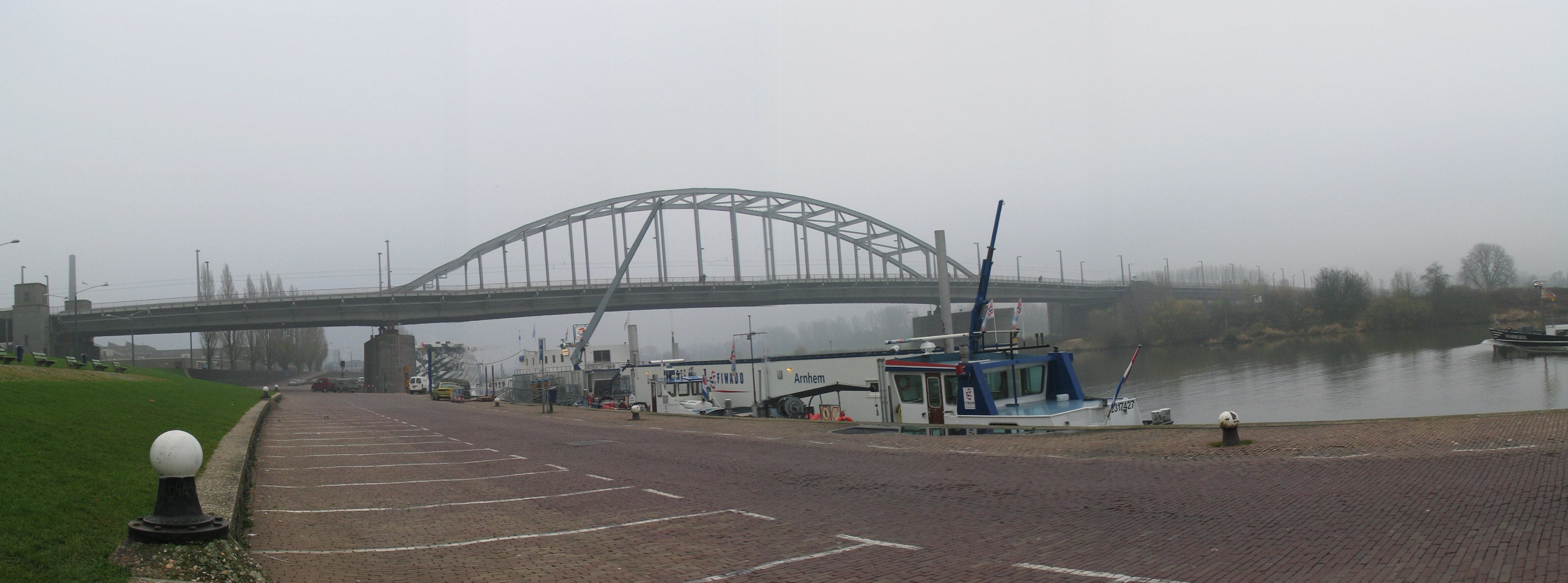 Słynny most w Arnhem, Famous bridge in Arnhem